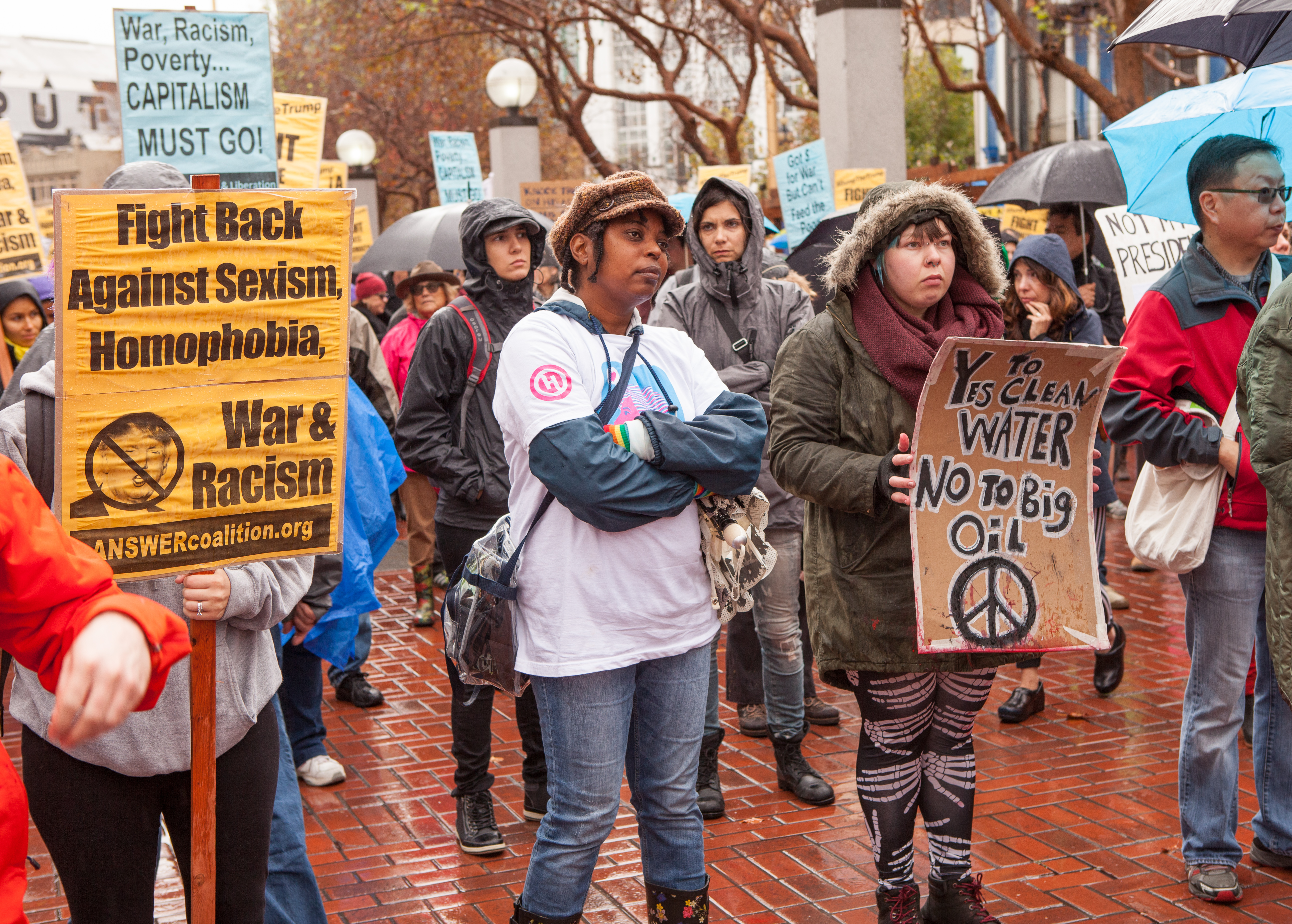 Protesters at an anti-Trump rally in San Francisco stand in the rain, holding signs and umbrellas.